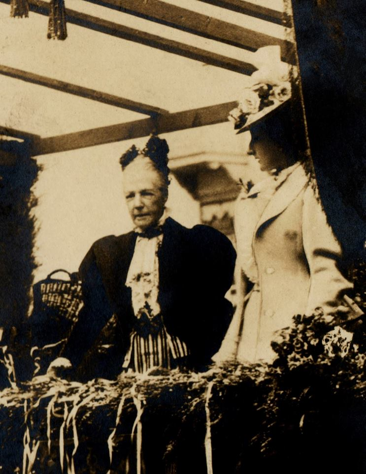 Queen Marie Henriette of the Belgians, with her youngest daughter, Princess Clementine, later 'Princesse Napoléon'.